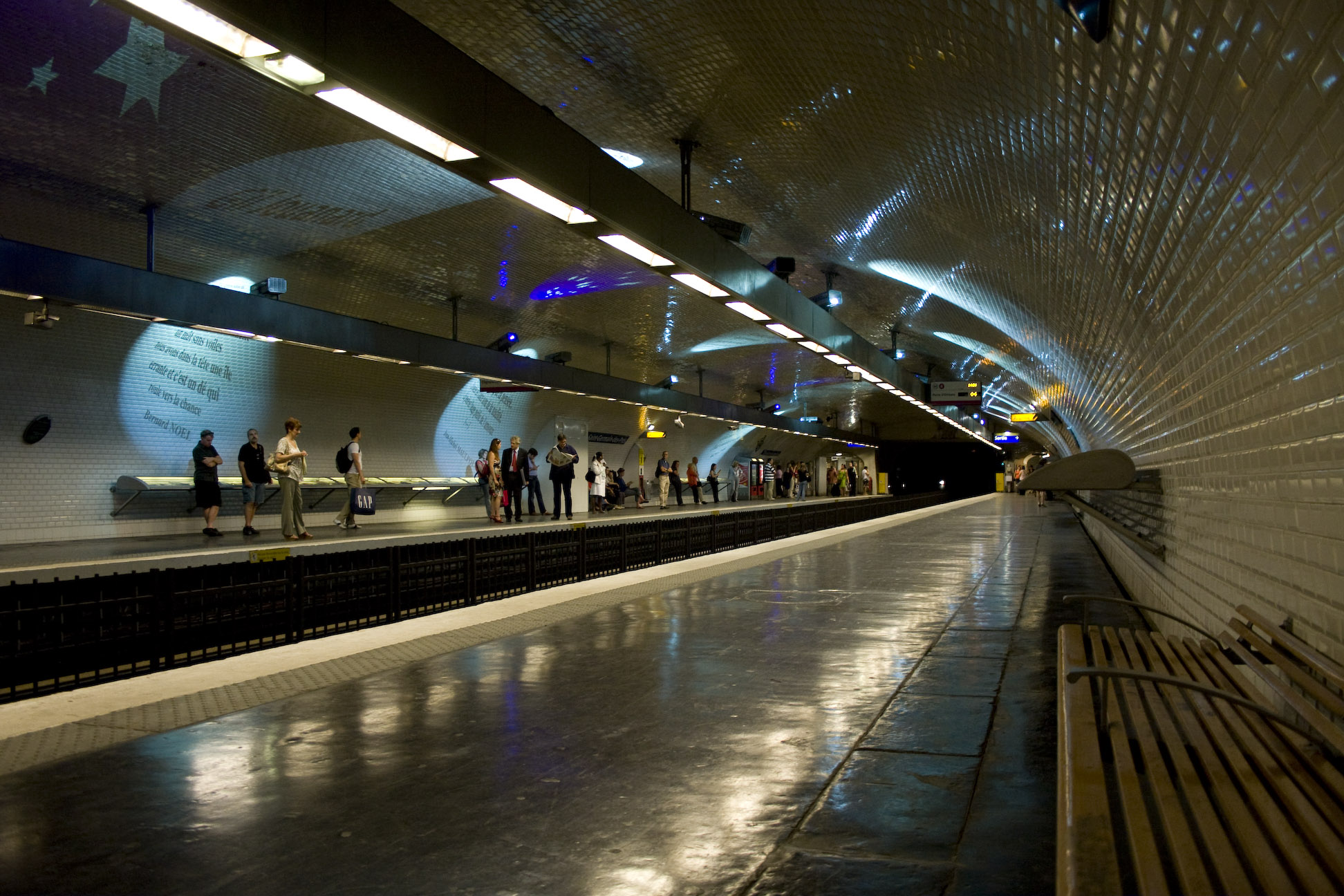 Saint-Germain-des-Prés station of Paris Métro